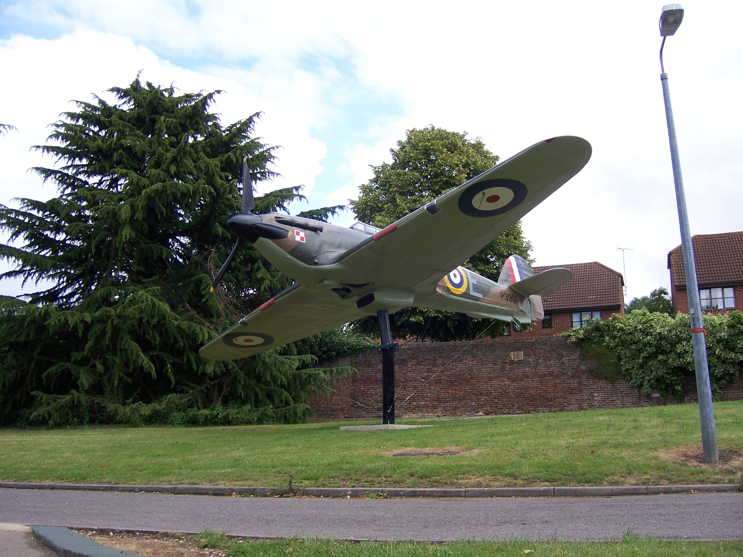 Hawker Hurricane opposite the Battle of Britain Bunker at RAF Uxbridge